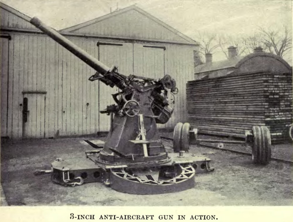 Photograph of British QF 3 inch 20 cwt anti-aircraft gun on cruciform travelling platform, with wheels removed, deployed ready for action.